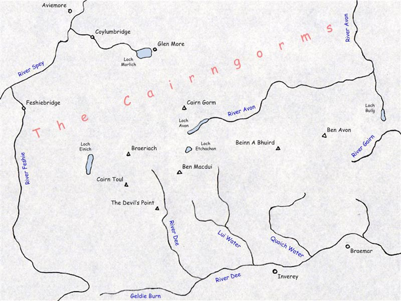 This sketch map of The Cairngorms created by Joe Dorward on 14FEB08 shows some of the villages, mountains, lochs, and rivers of the mountain range